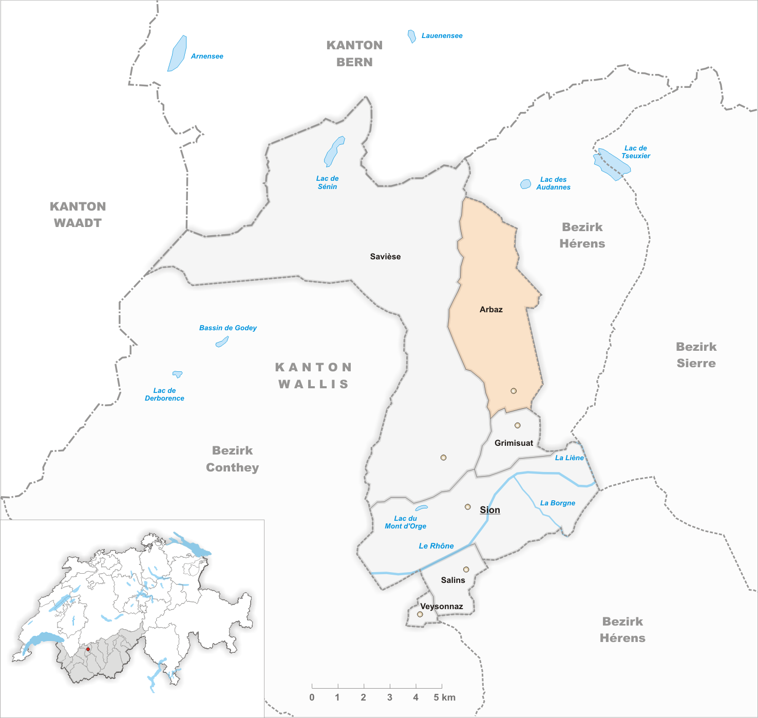 Municipality Arbaz